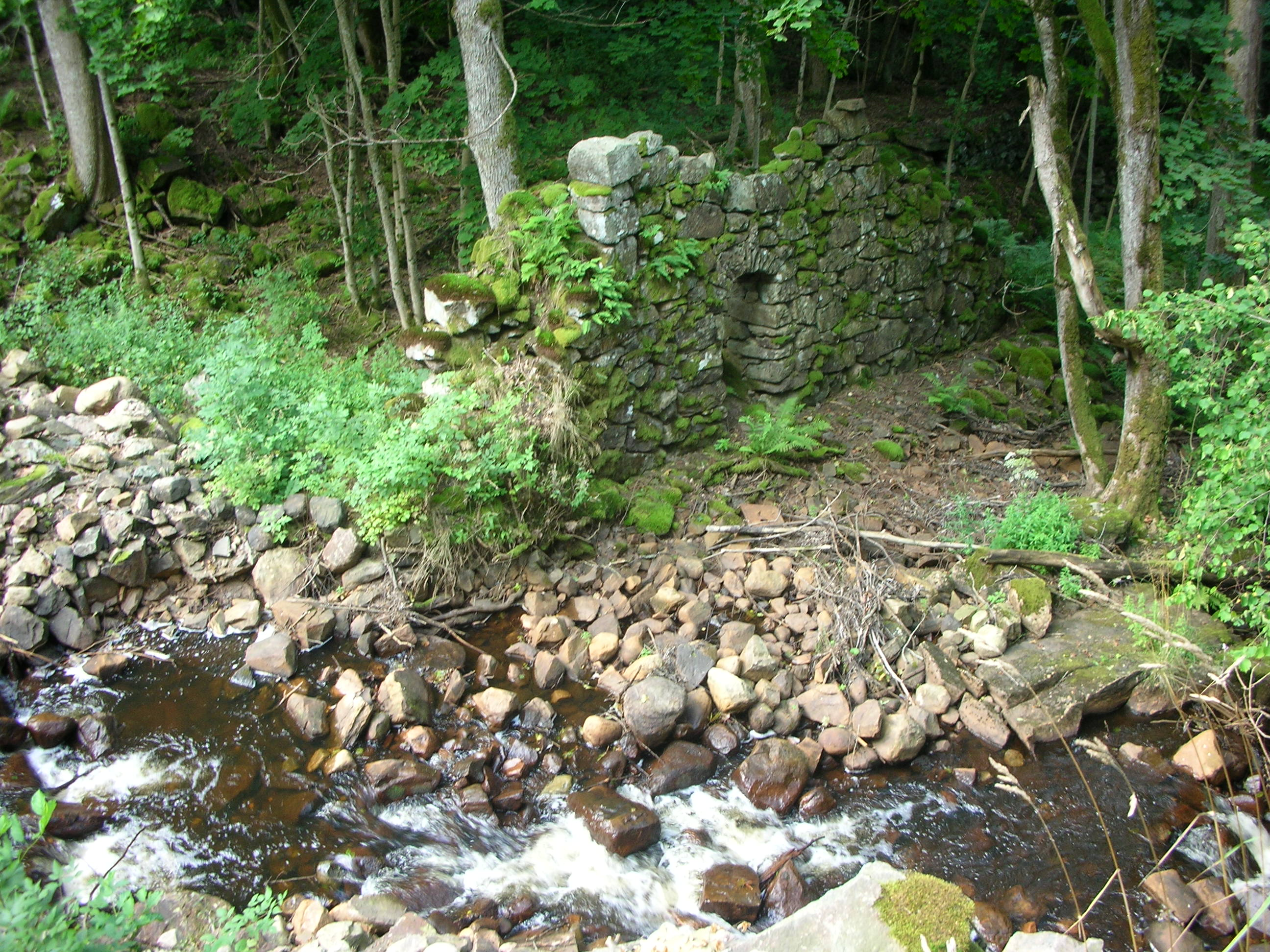 The old mill at Stenån in Gässlösa nature reserve, Varberg Municipality, Sweden.